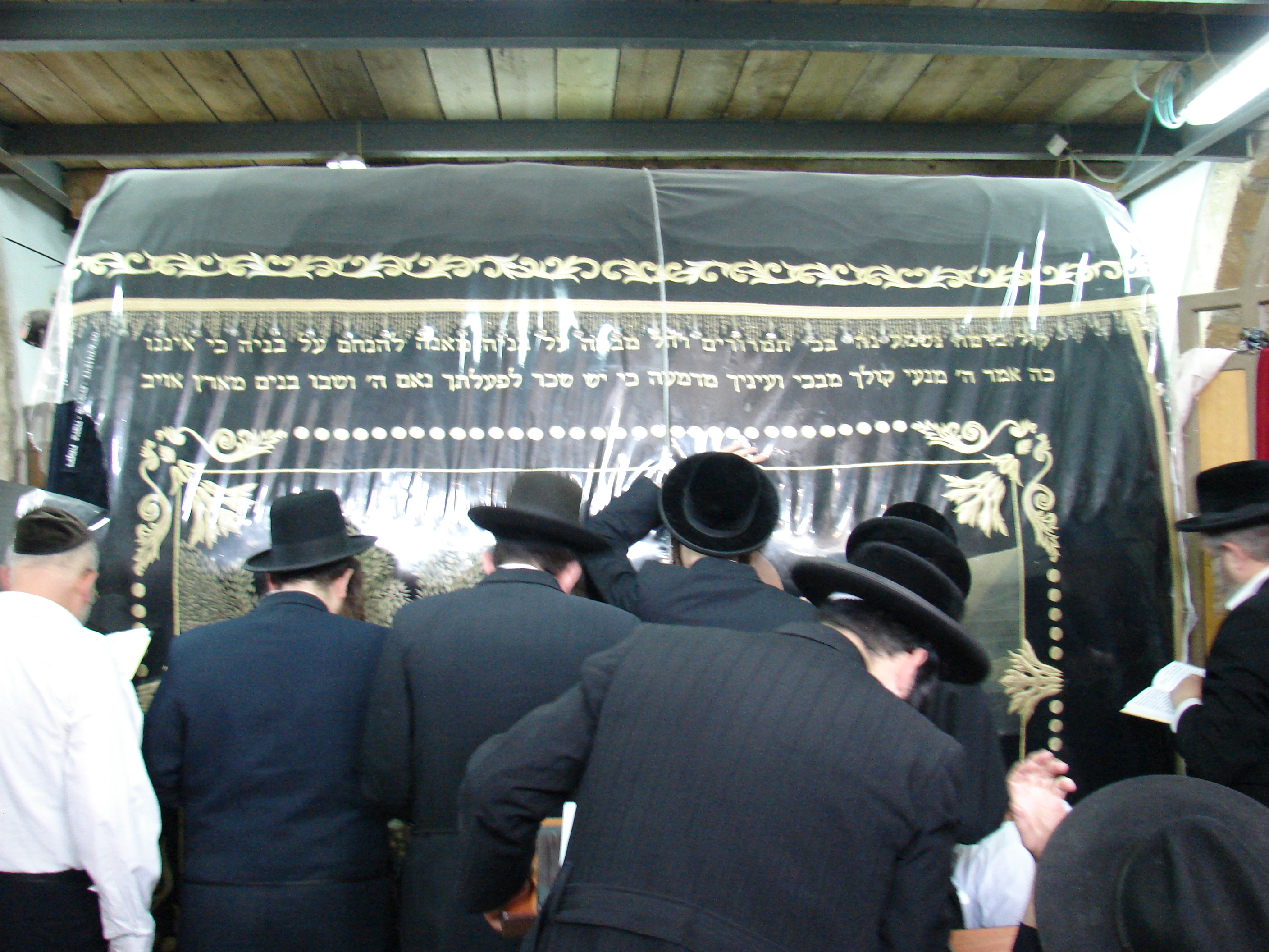 Inside the tomb of Rachel, from the male side.